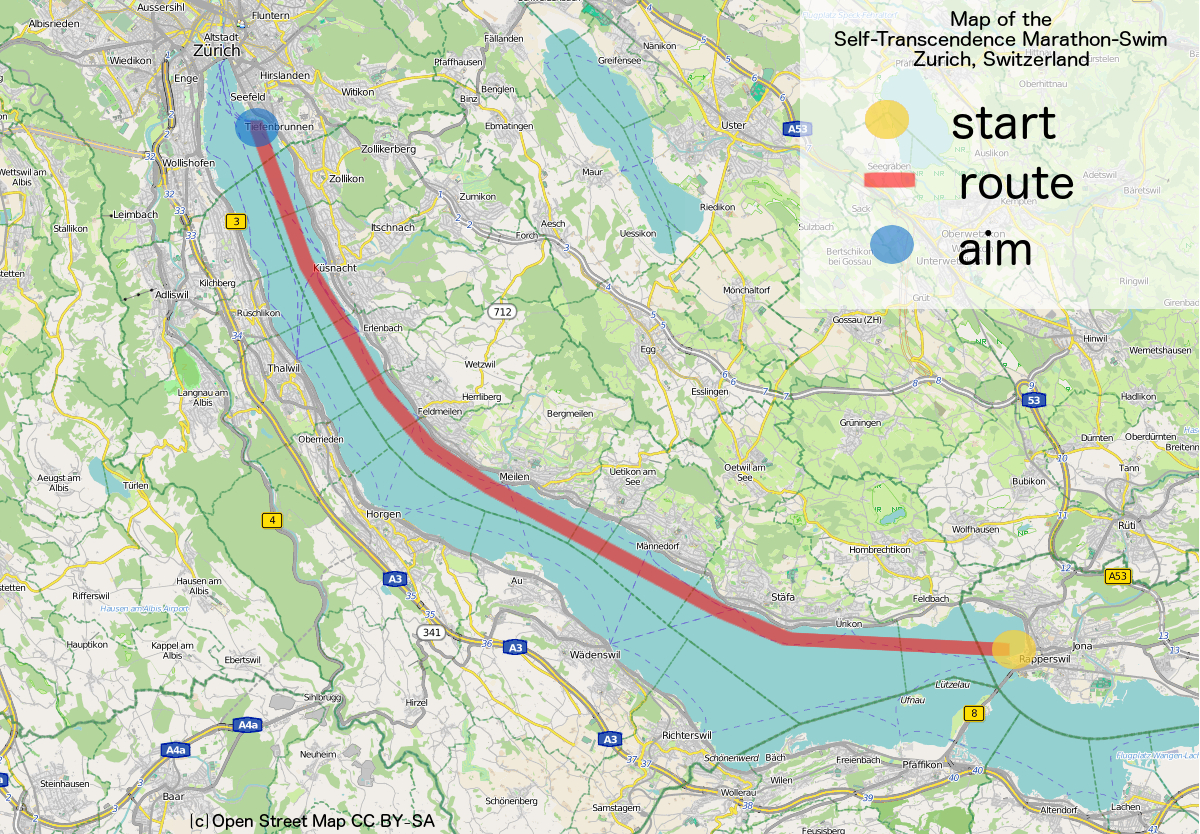 Map of the Self-Transcendence Marathon-Swim Rapperswil, Zurich, Switzerland.